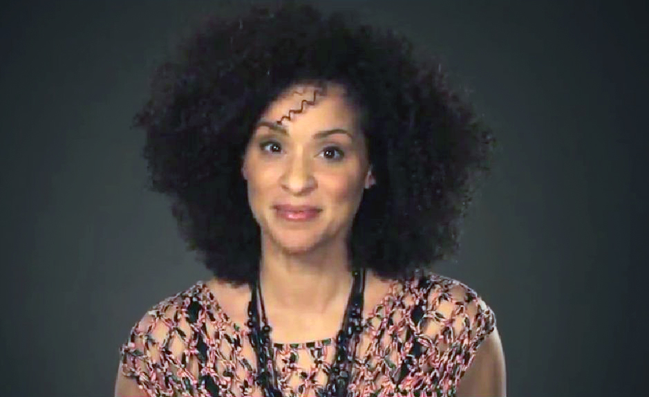 Screenshot taken from the 0:53 mark of the movie posted on the EPA website.